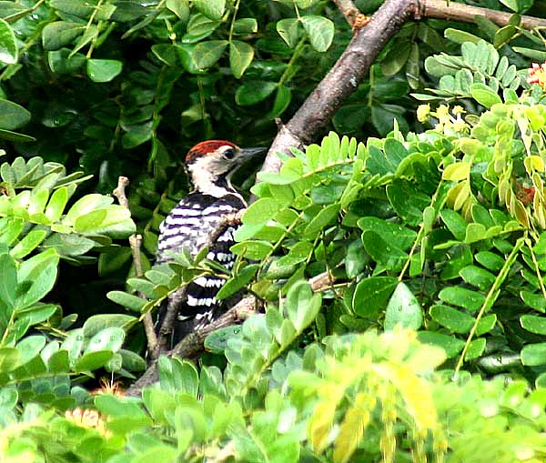 Fulvous-breasted Woodpecker Dendrocopos macei in Kolkata, West Bengal, India.